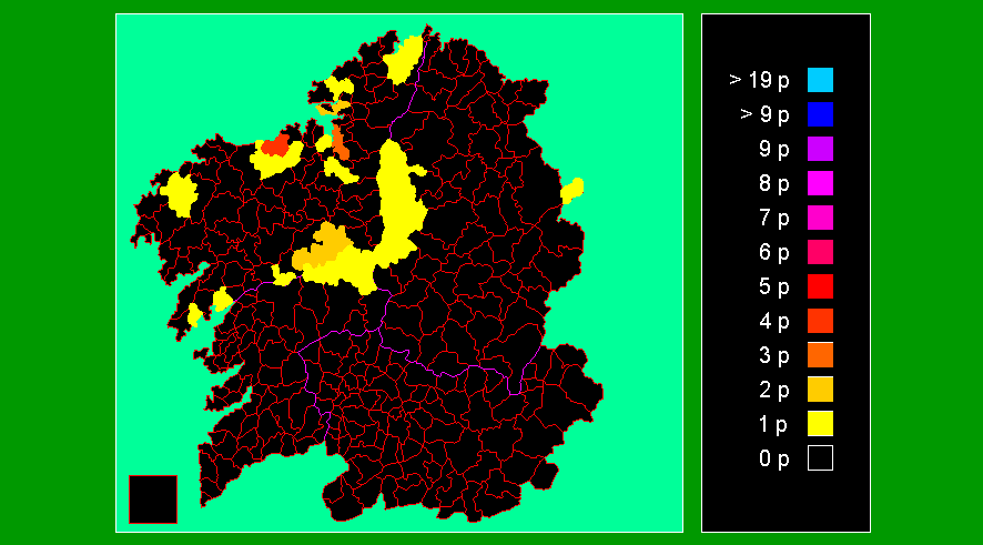 Map of Galicia with the frequence of toponyms ending in -obre in each municipality.